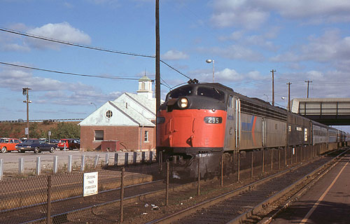 Ex-Penn Central locomotive 295 pulling a southbound Amtrak train at Route 128 station in November 1974